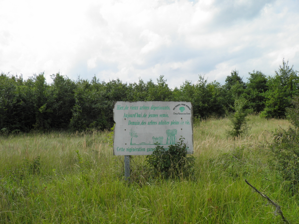 Forest area in Forêt d'Halatte, Oise, France